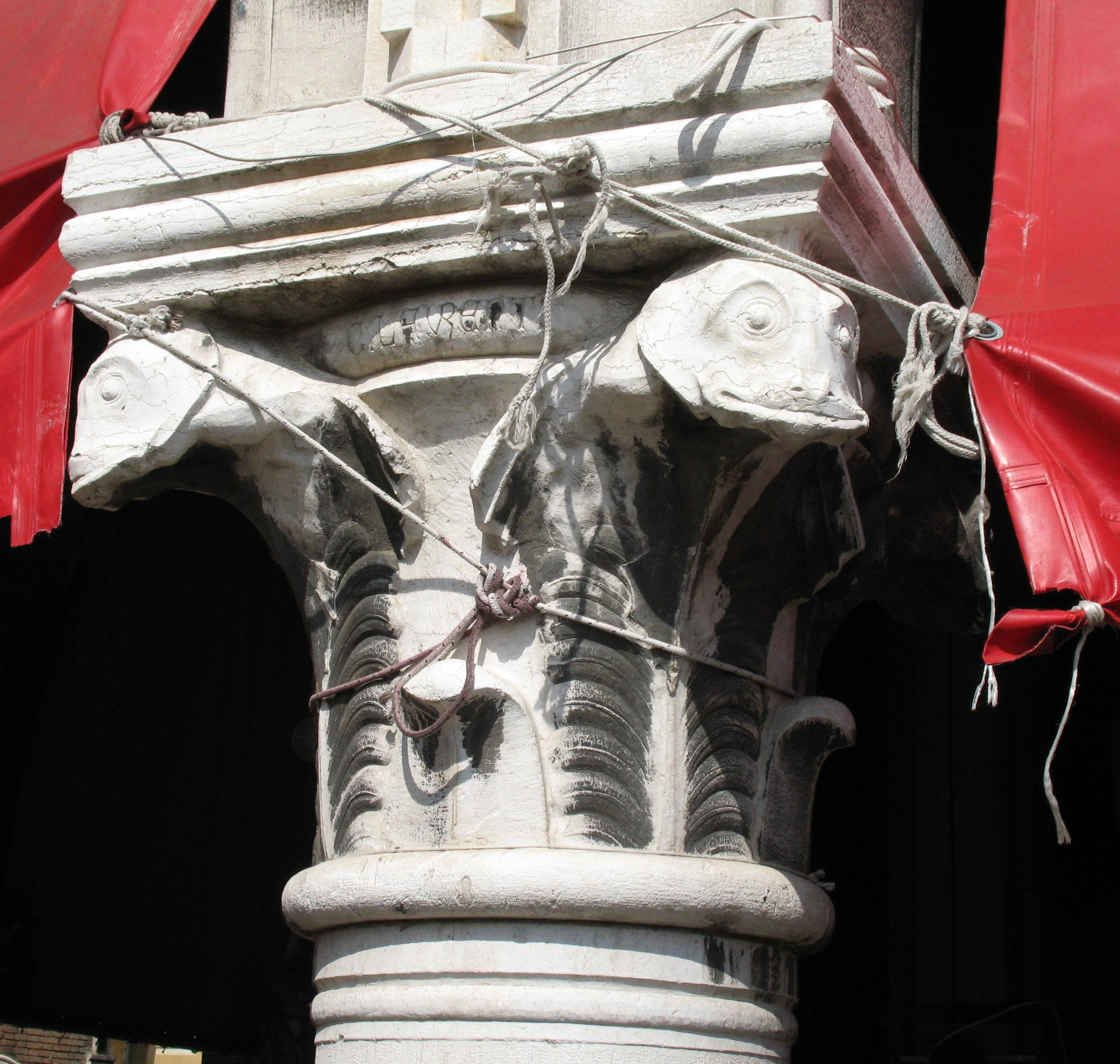 Capital at the fish market in Venice, Italy